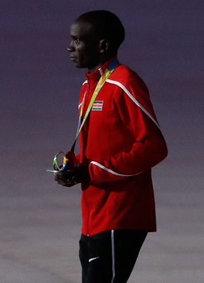 Eliud Kipchoge, Olympic champion, awards ceremony at Rio 2016 Olympics.